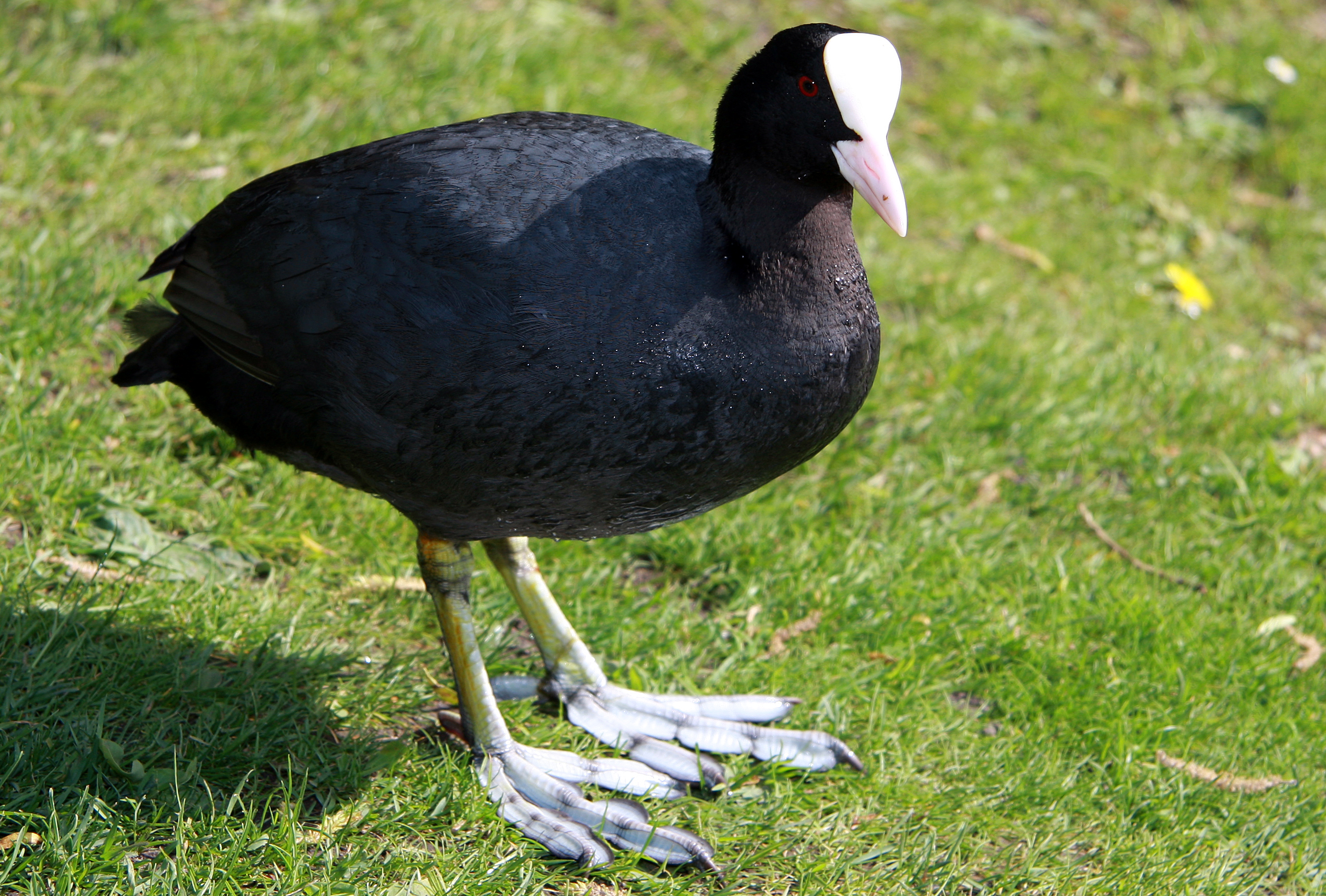 Eurasian Coot (Fulica atra) in Stadsparken city park in Lund, Sweden